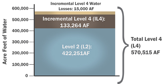 Table of Water Types Delivered by the RWSP